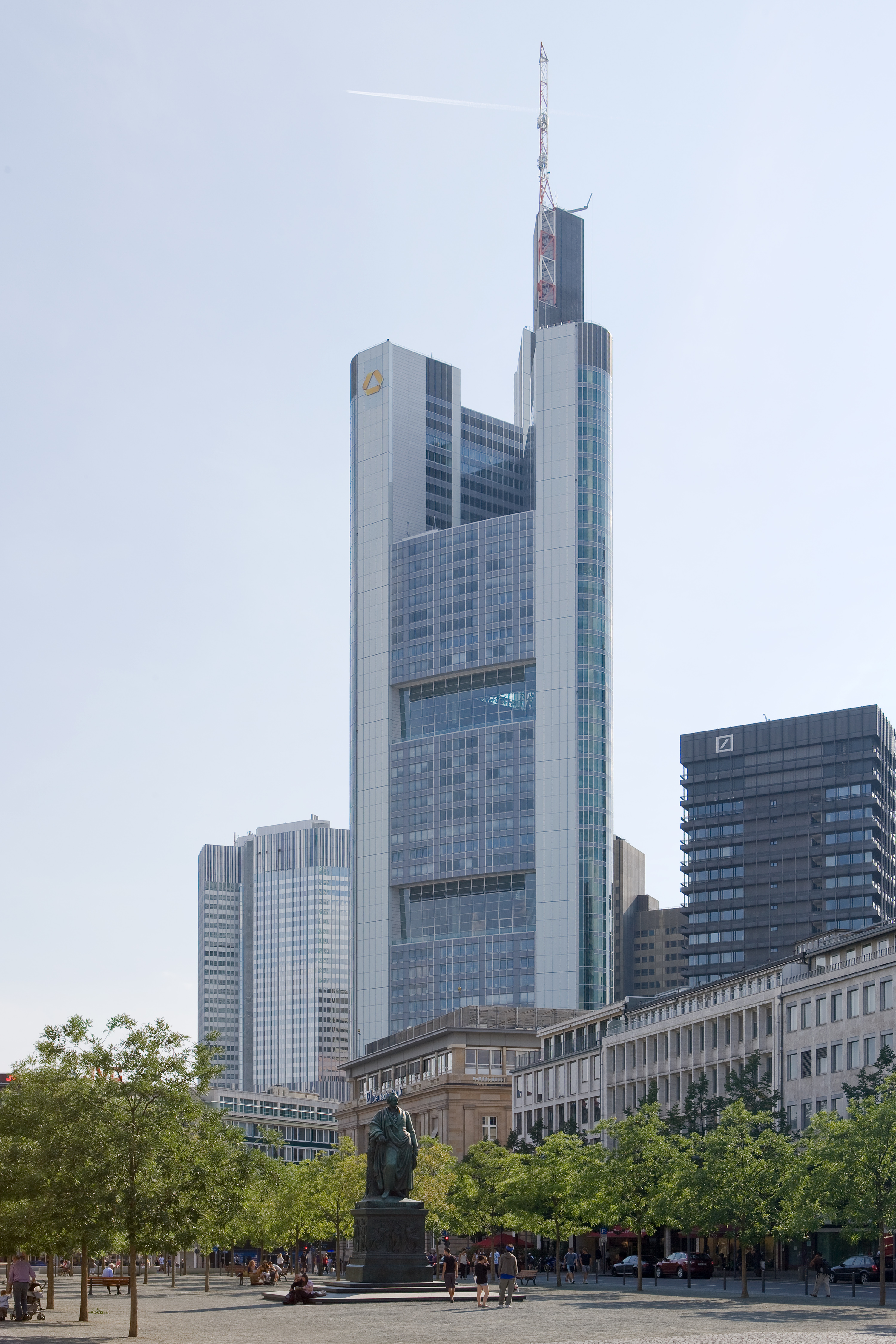 Frankfurt on the Main: Commerzbank Tower as seen from the Rathenauplatz (Rathenau Square)